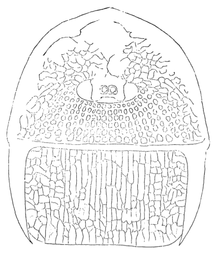 Figure of the "head" of eurypterid Mycterops ordinatus from its 1886 description by Edward Drinker Cope